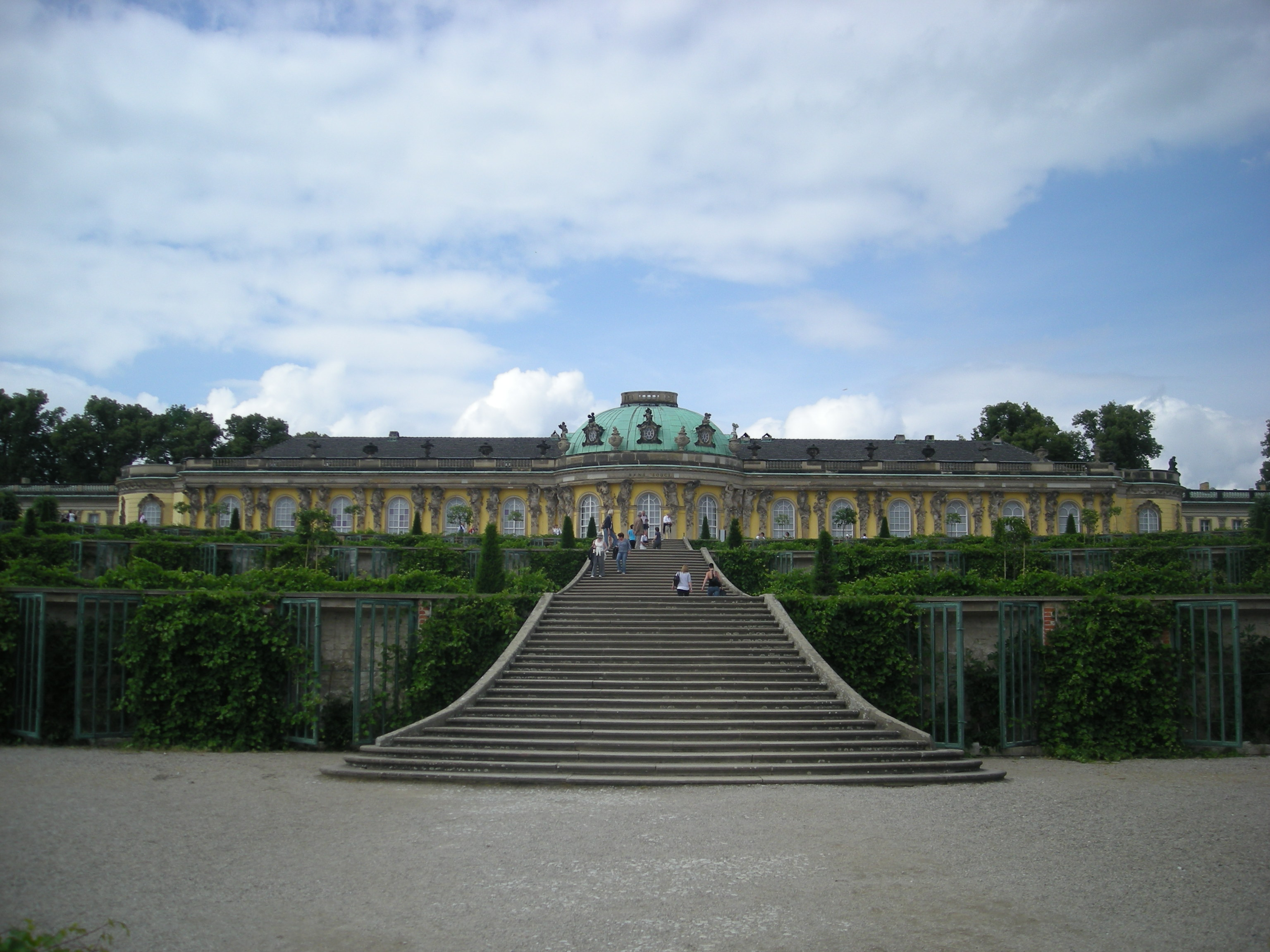 The exterior and the vineyard of the Schloss Sanssouci in Potsdam, Brandenburg (Germany).